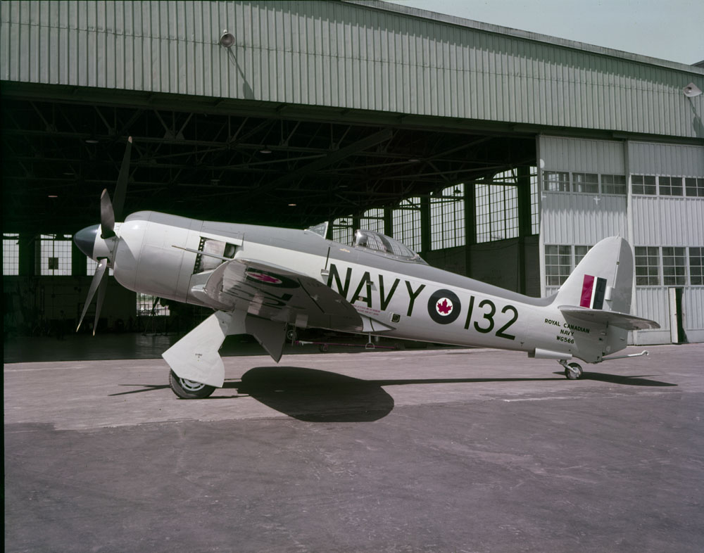 Hawker Sea Fury serial number WG566 in Canadian service. This aircraft was destroyed in midair collision on 10 April, 1953.